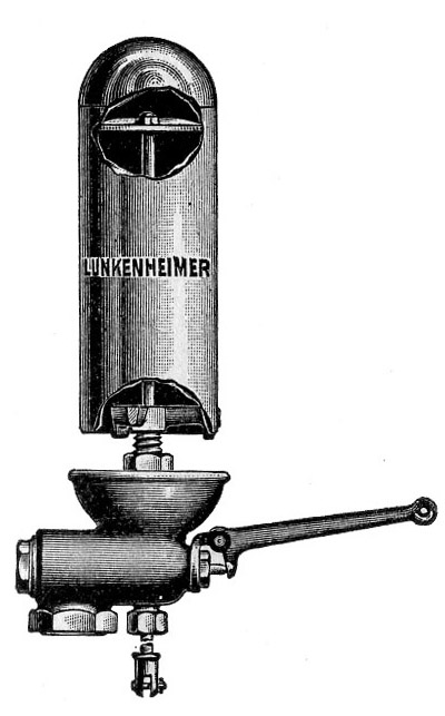 From a 1912 trade cataog.